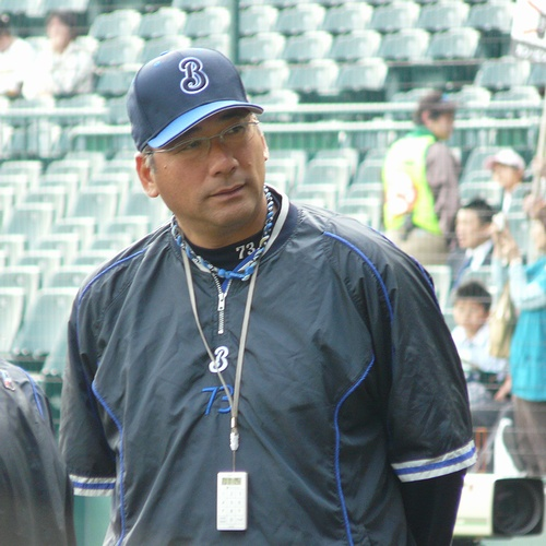 YB-Norihiro-Komada20090430